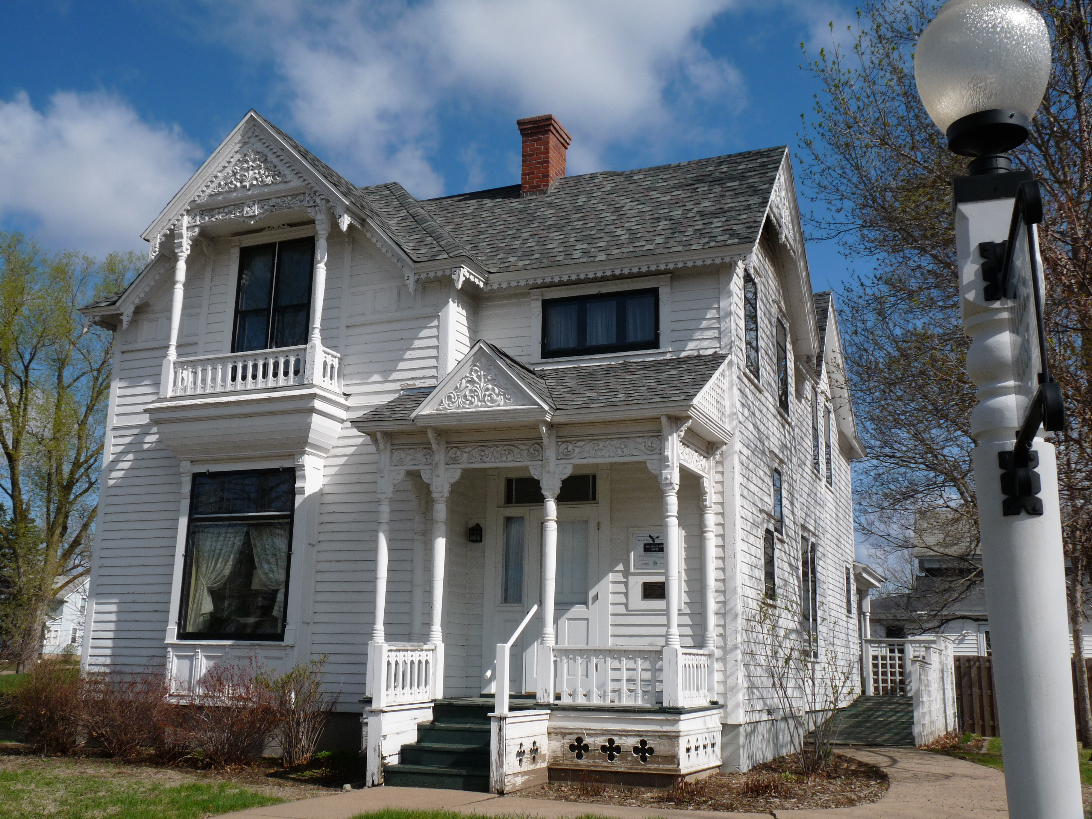 Norwegian-American author Ager lived with his family in this house in Eau Claire, Wisconsin, from 1903 to 1941, and wrote there. Today the house is listed on the National Register of Historic Places.